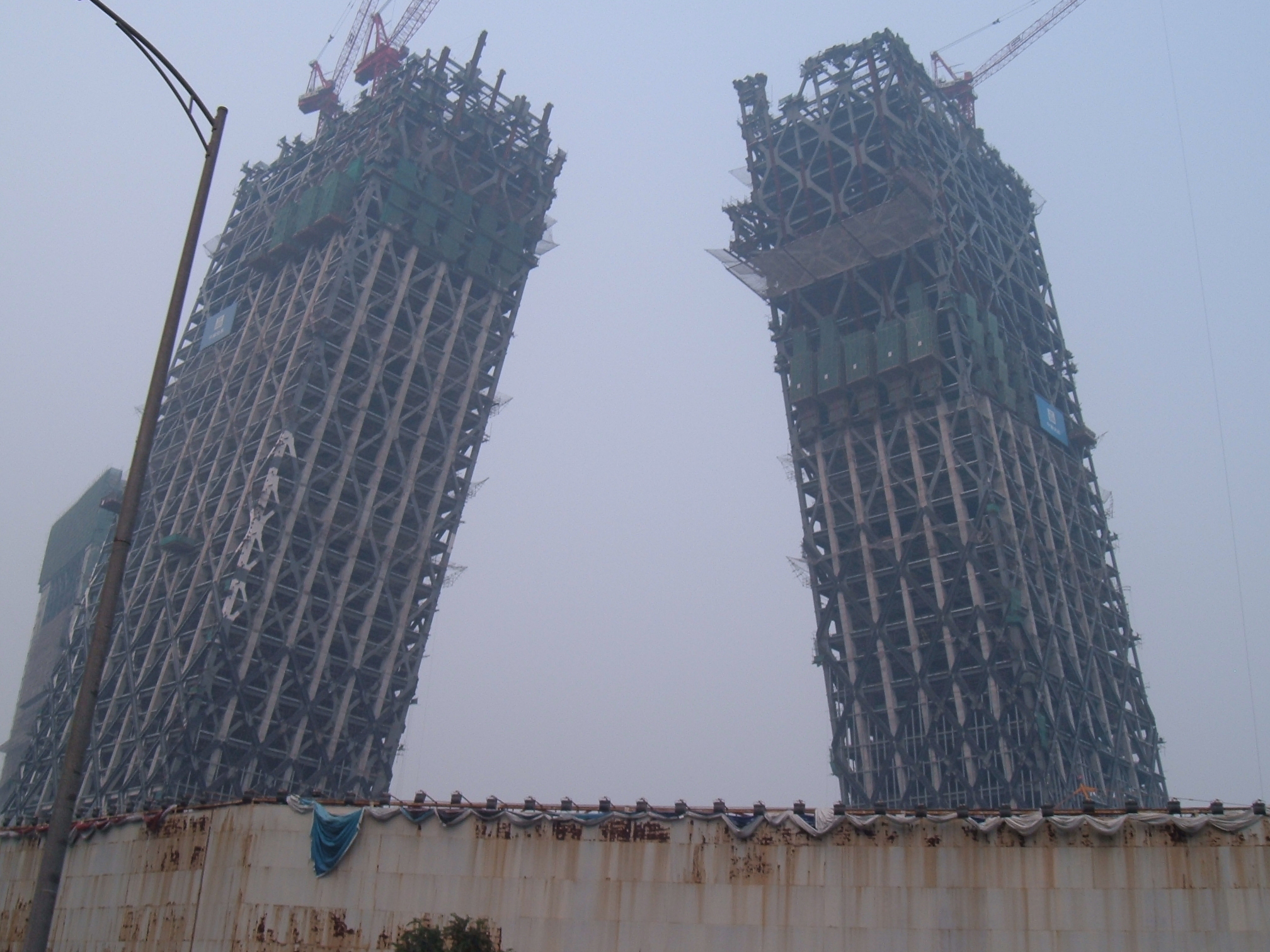 CCTV headquarters Beijing (under construction), 16:06, 20 August 2007.